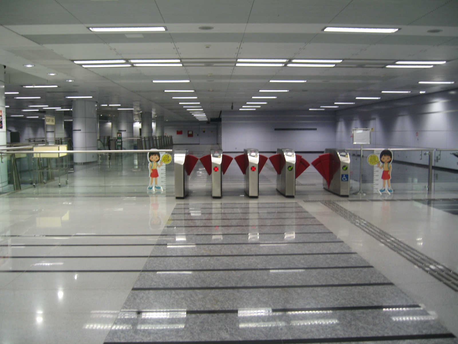 Potong Pasir MRT Station.